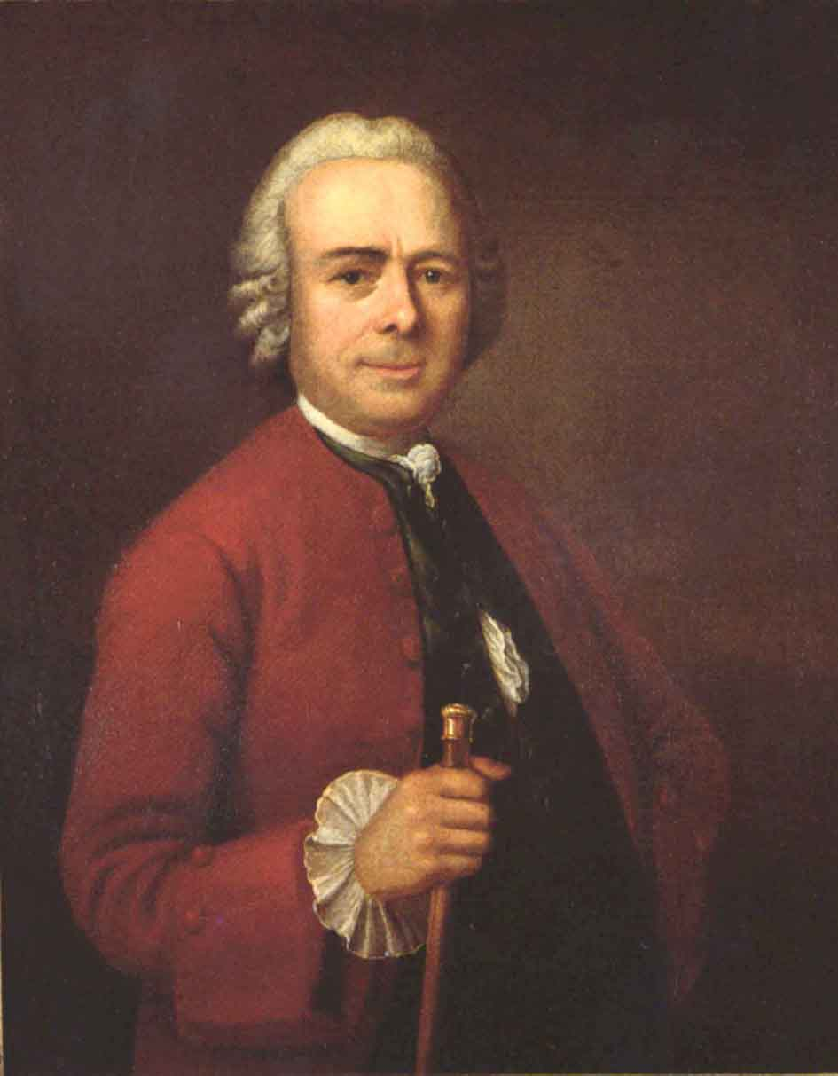 Johann Heinrich Scheibler (1705-1756), around 1750